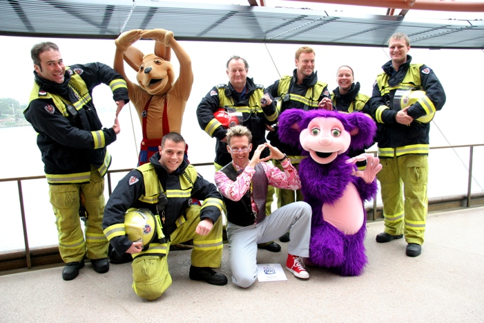 Members of the Hooley Dooleys posing alongside Fire and Rescue NSW firefighters in 2007